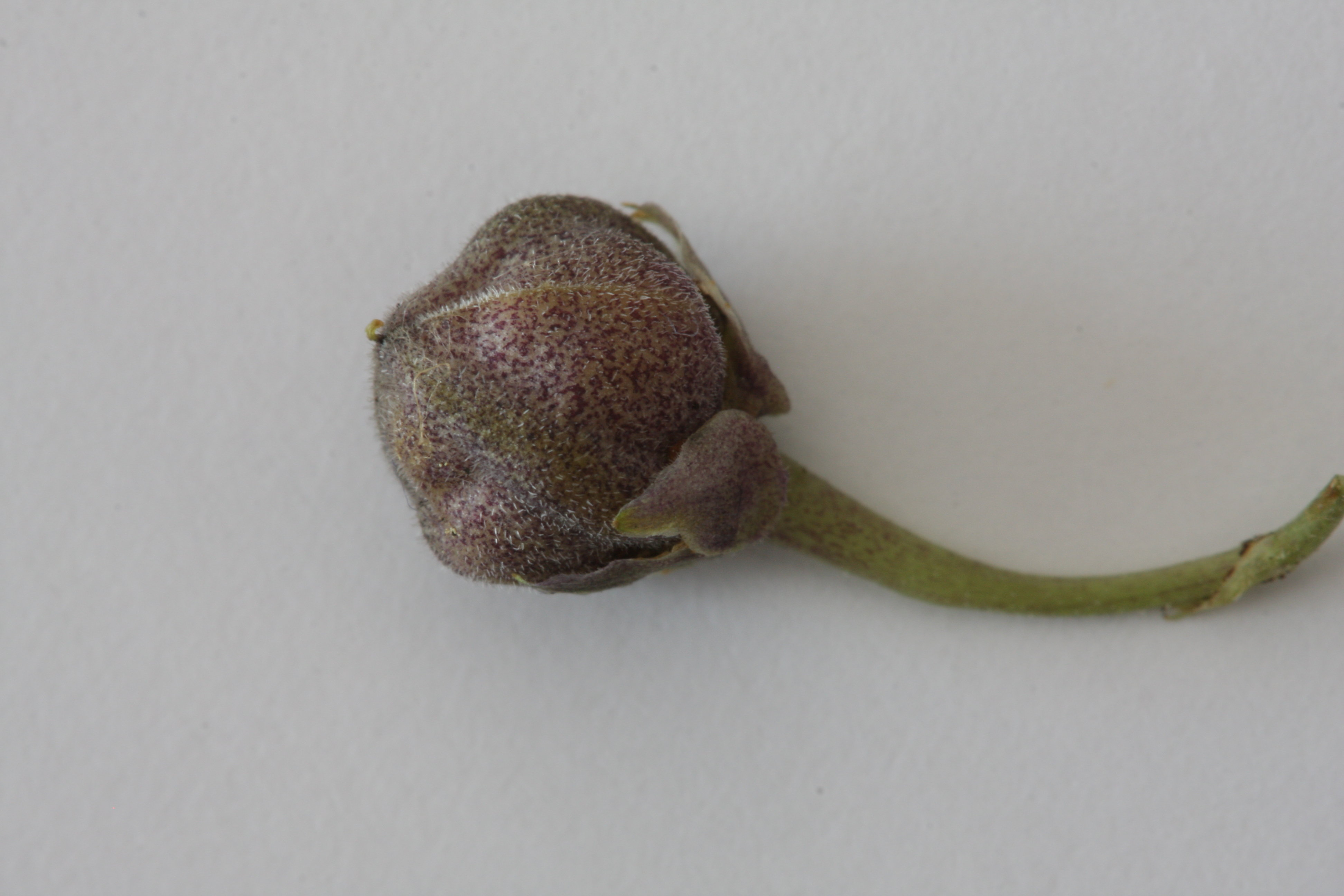 Viola odorata : cleistogamous flower.